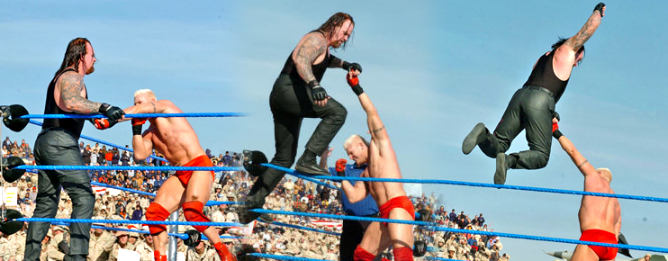 WWE wrestler "The Undertaker" gets ready to perform his "Old School" maneuver on fellow wrestler Heidenreich.